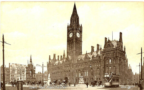 Manchester Town Hall in the late 19th Century